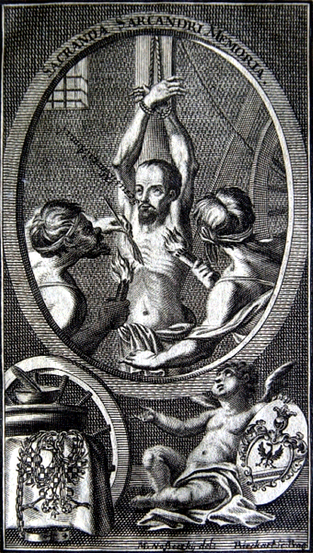 Martyr John Sarkander.